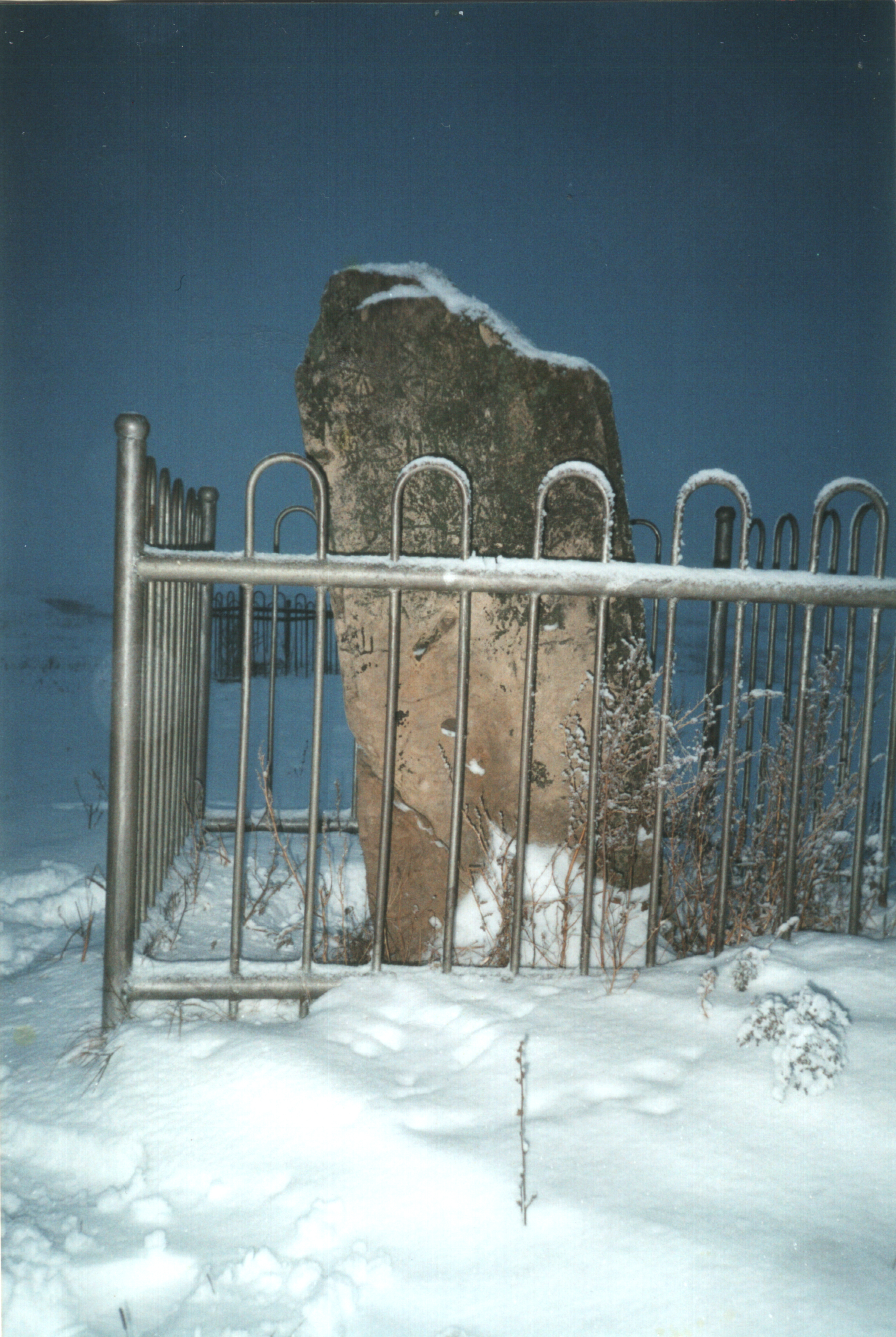 Monument on boundary of Staryje Savrushi village, Tatarstan. The stone is dated to 1349.